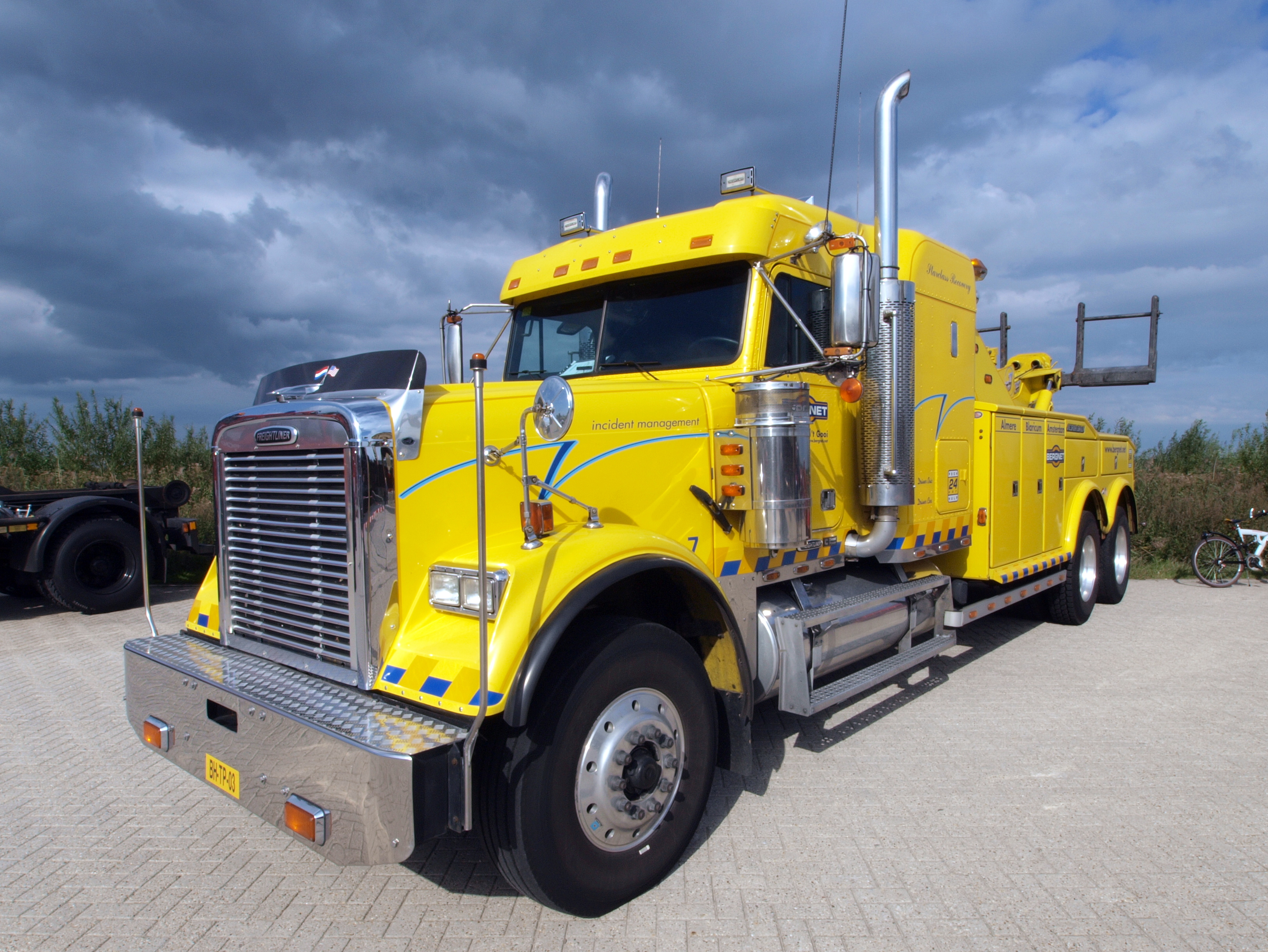 Freightliner FLD120 wrecker photographed at Huizen, The Netherlands.